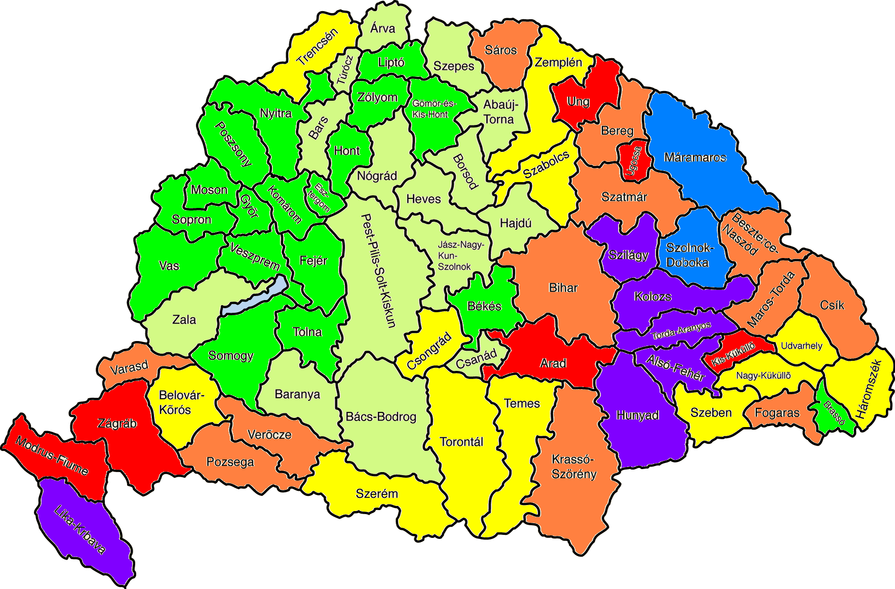 Literacy in the Kingdom of Hungary (1900) Male literacy, 1900 census, Kingdom of Hungary. Green 90%-80%; light green 80%-70%; yellow 70%-60%; orange 60%-50%; red 50%-40%; purple 40%-30%; blue 30%-20%.